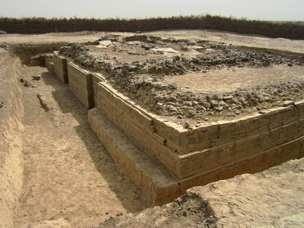 A 5th century Byzantine basilica at Adulis, Eritrea, excavated in 1914 by the Italian archaeologist Roberto Paribeni.